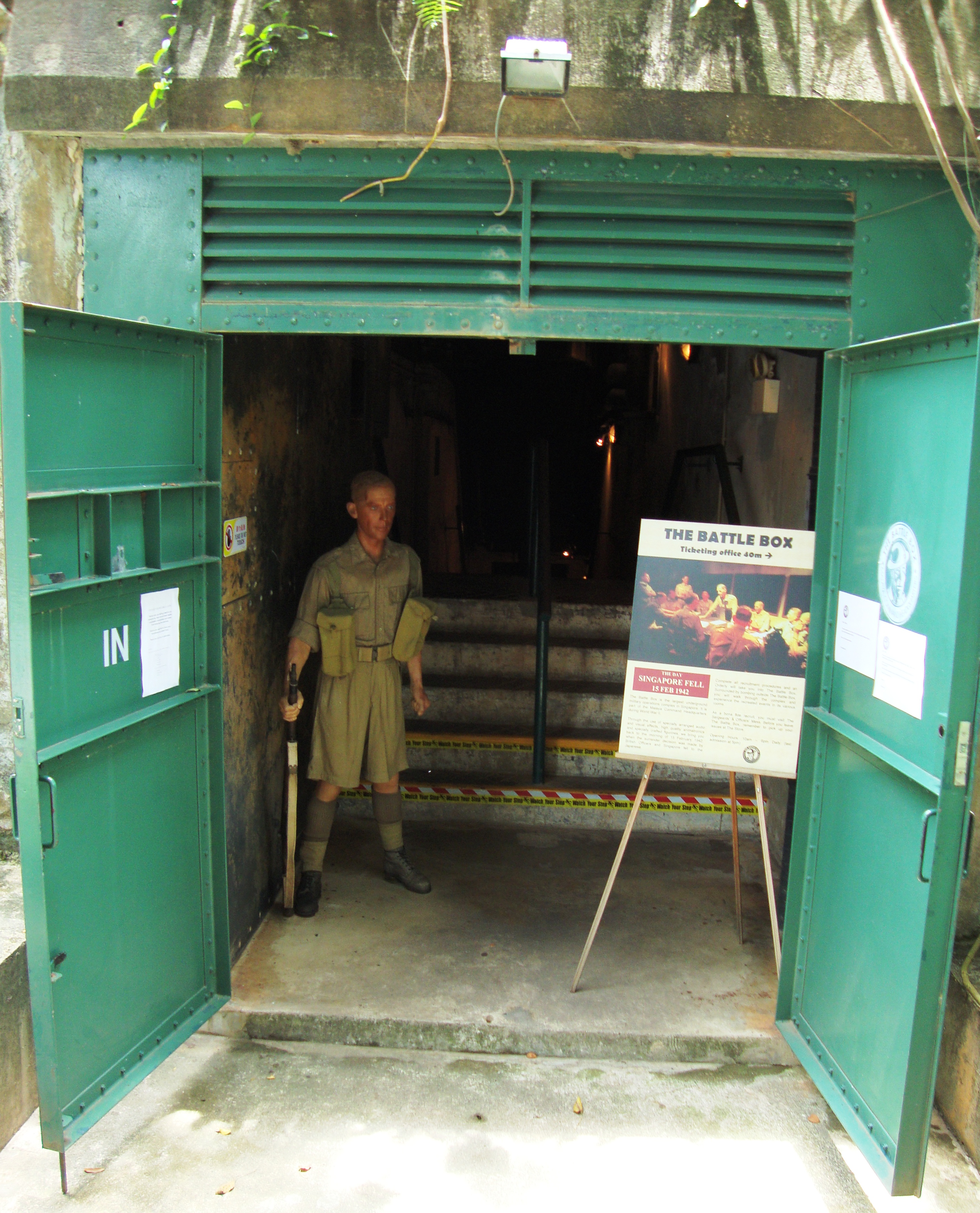 Entrance to the Battle Box complex in Fort Canning Park, Singapore.